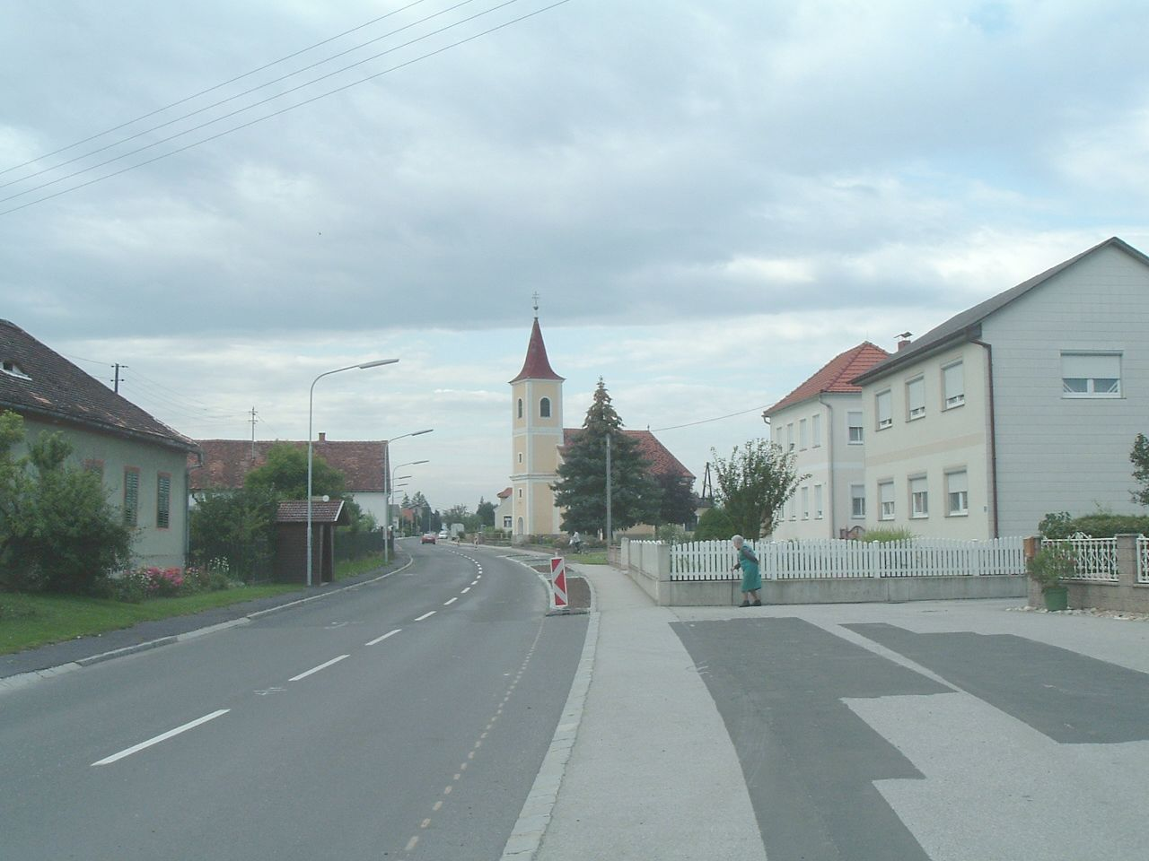 Kotezicken (Sárosszék), Burgenland